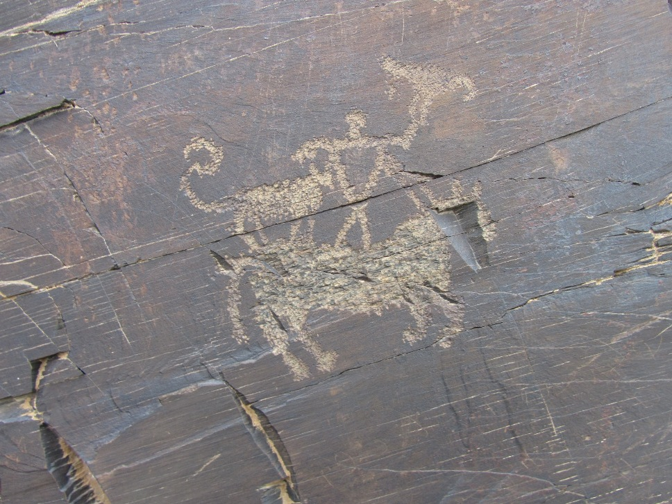 Petroglyph in Golpaygan, Isfahan, Iran. depicting horseback hunter with falcon and saluki-like sighthound. ca. 8000-10000B.C سنگ‌نگاره گلپایگان مربوط به ۱۰۰۰۰-۱۲۰۰۰ سال پیش تازی را در پشت اسب به‌همراه شکارچی و قوش نشان می‌دهد عکس از: محسن جمالی - محقق سنگ‌نگاره‌های خمین و گلپایگان. ارسال شده توسط: آرمان ترک‌زبان